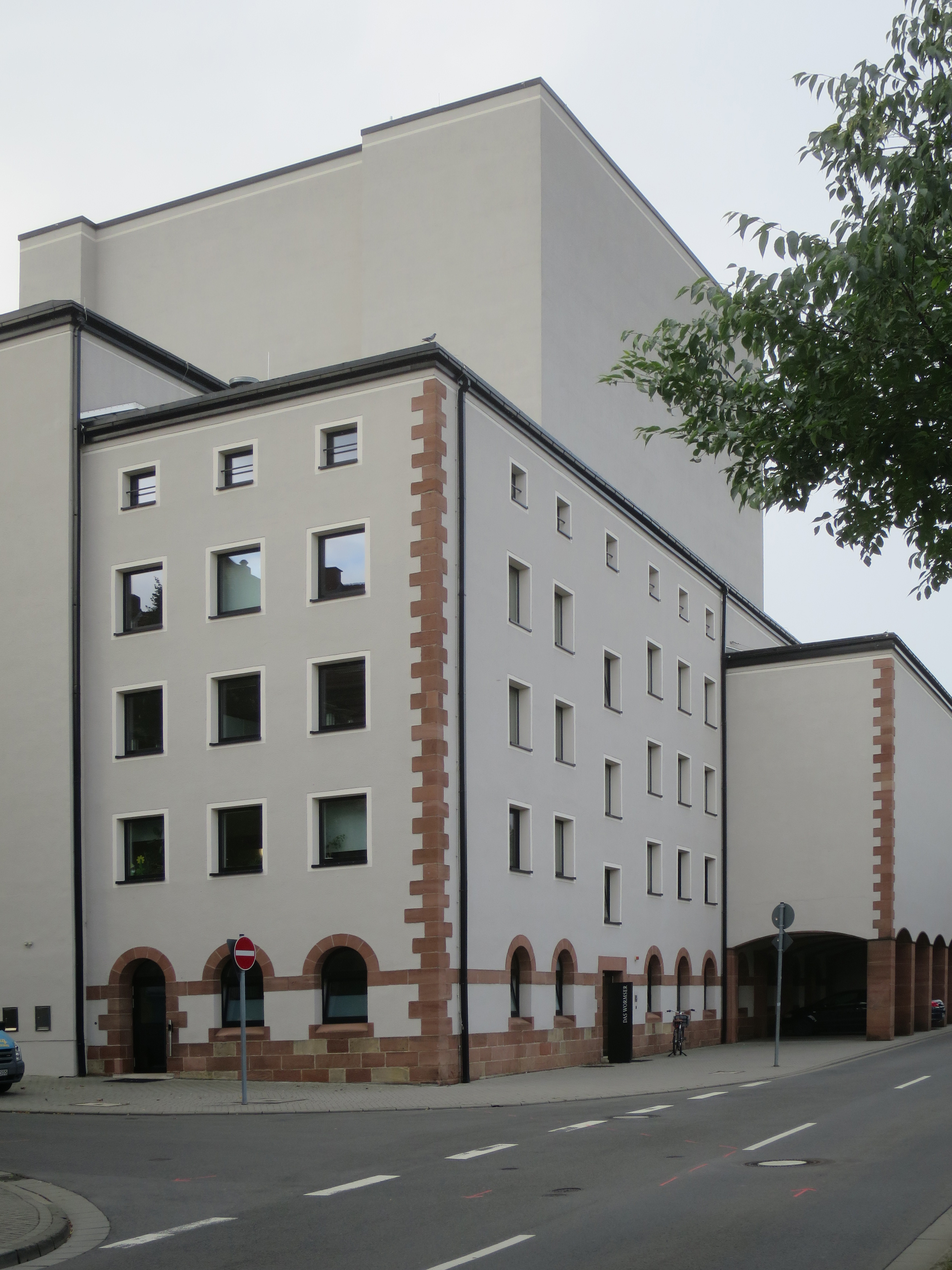 Theater building in Worms